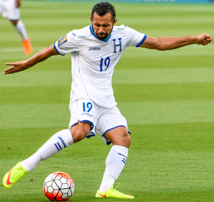 Alfredo Antonio Mejía Escobar (Alfredo Mejía) playing with Honduras Men's National Team against Haiti in the Gold Cup, Kansas City, Kansas. 13JUL2015 This file has been extracted from another file: Alfredo Antonio Mejía Escobar 2.jpg